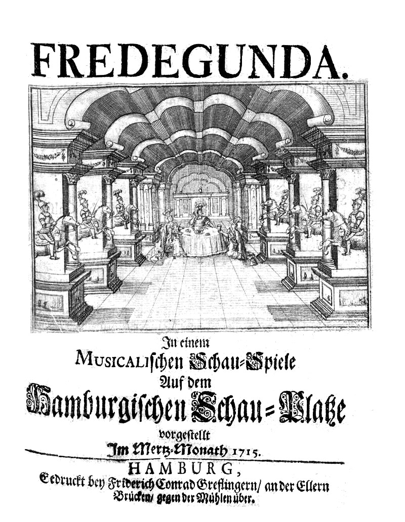 Reinhard Keiser - Fredegunda - titlepage of the libretto from 1715